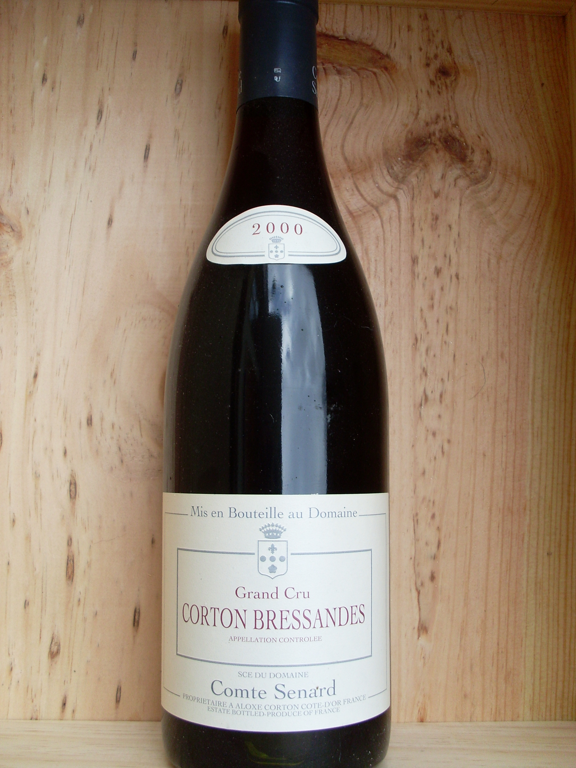 Red Burgundy wine made from Pinot noir grown in the grand cru vineyard of Corton